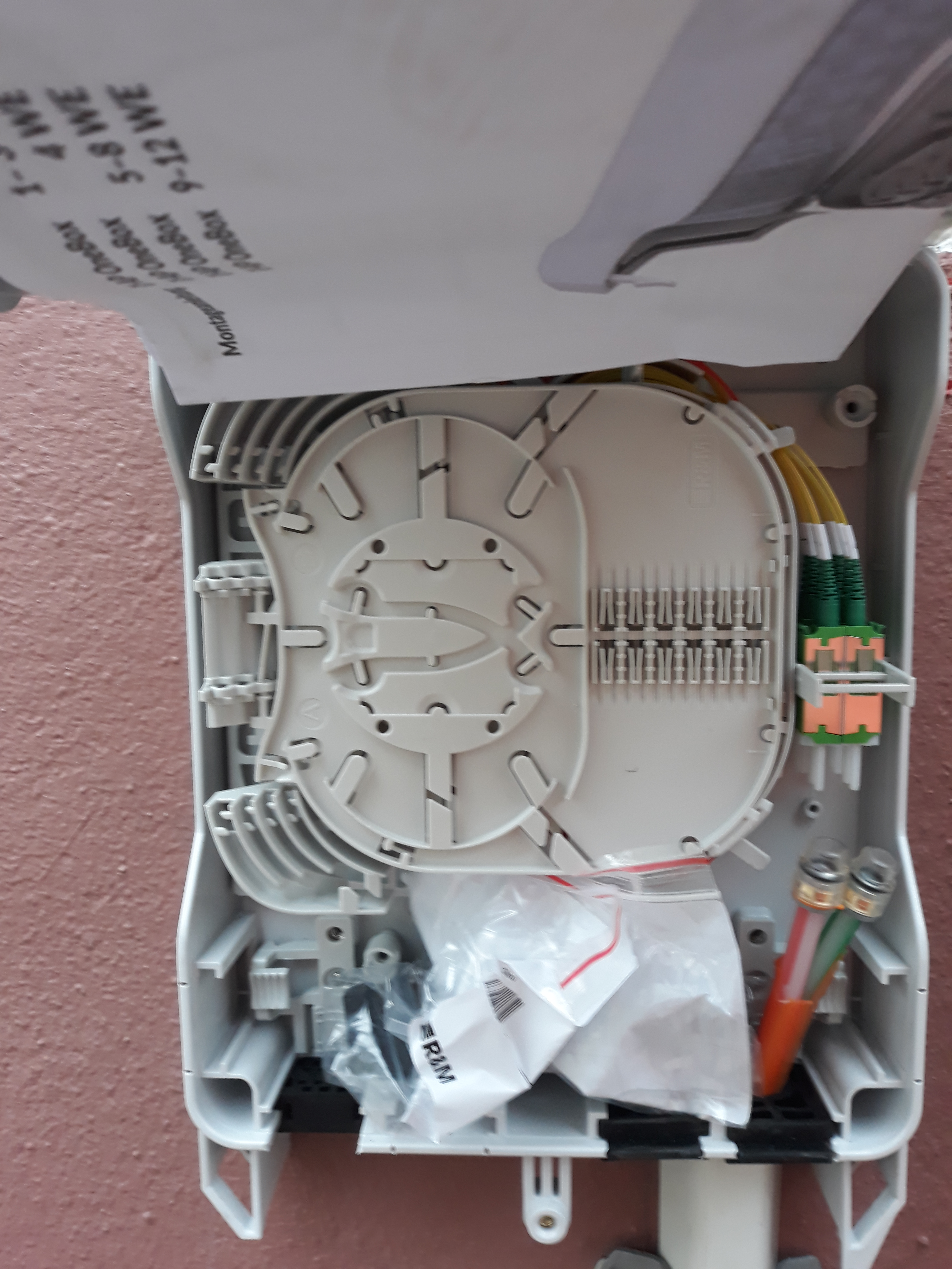 Fiber Termination Unit (opened, not connected yet). Model used by Deutsche Telekom in 2018 for outdoors on buildings walls.